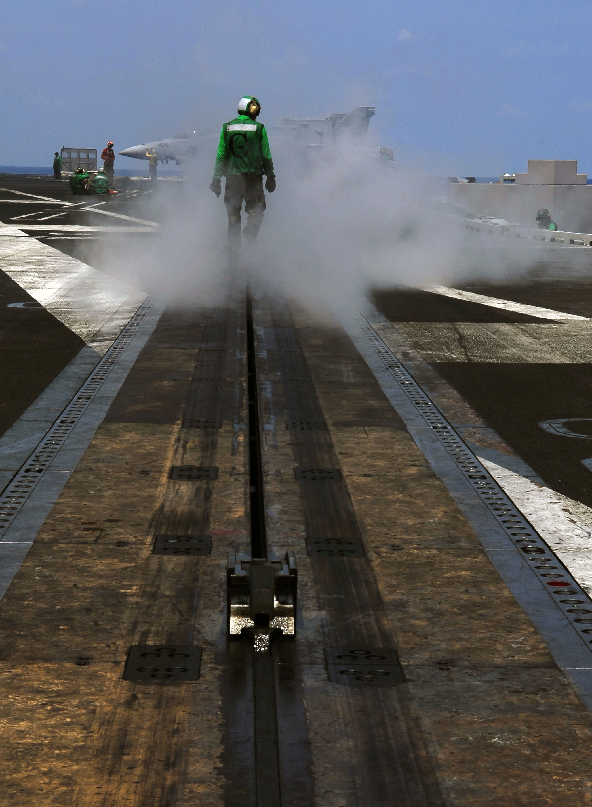 PACIFIC OCEAN (May 4, 2009) Aviation Boatswain's Mate (Equipment) 1st Class Brandon Benedict, from Tulsa, Okla., performs final checks on an aircraft catapult prior to flight operations aboard the Nimitz-class aircraft carrier USS John C. Stennis (CVN 74). Stennis is on a scheduled six-month deployment to the western Pacific Ocean. (U.S. Navy photo by Mass Communication Specialist 3rd Class Kyle Steckler/Released)